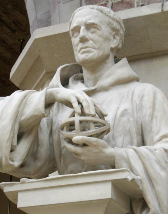 Statue of Roger Bacon in the Oxford University Museum of Natural History. Photograph taken by Michael Reeve (User:MykReeve), 30 May 2004. Adapted from: Changes: just a simple crop, (using a losless procedure).